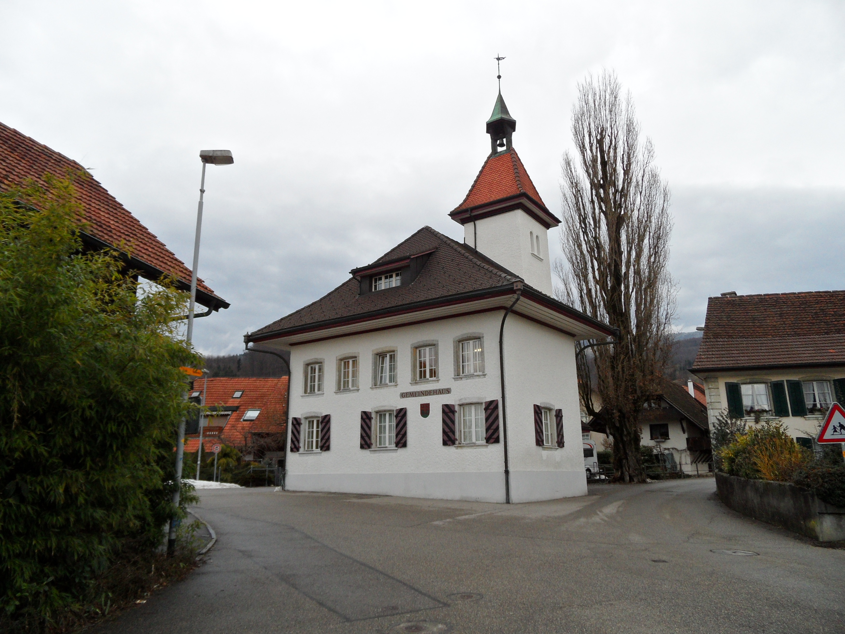 Town hall of Attiswil, canton of Bern, Switzerland.